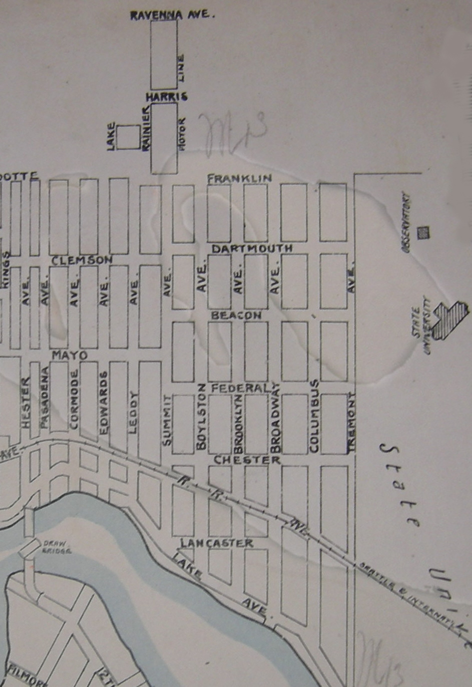 Part of key map, Seattle, Washington 1893 Volume 2, Sanborn-Perris Map Co. Limited, New York, (1893). Shows Brooklyn (now the University District) before the street names were changed. The observatory at upper right (on the University of Washington Campus) remains in the same place. What was then "Brooklyn" is now 12th Avenue NE: see Paul Dorpat, Seattle Neighborhoods: University District -- Thumbnail History, HistoryLink, June 18, 2001. Wyandotte (a name only partly visible on this map) and Franklin Streets are now 45th Street. Part of Pasadena Avenue (or something near it) remains as Pasadena Place. Further commentary can be found at Image:Seattle map - Sanborn Perris 1893 - U. District v2.jpg. This is an image of a plastic-covered document: some reflections and also some shadow.